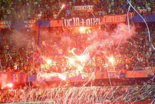 Picture Hinchada Maracaibo